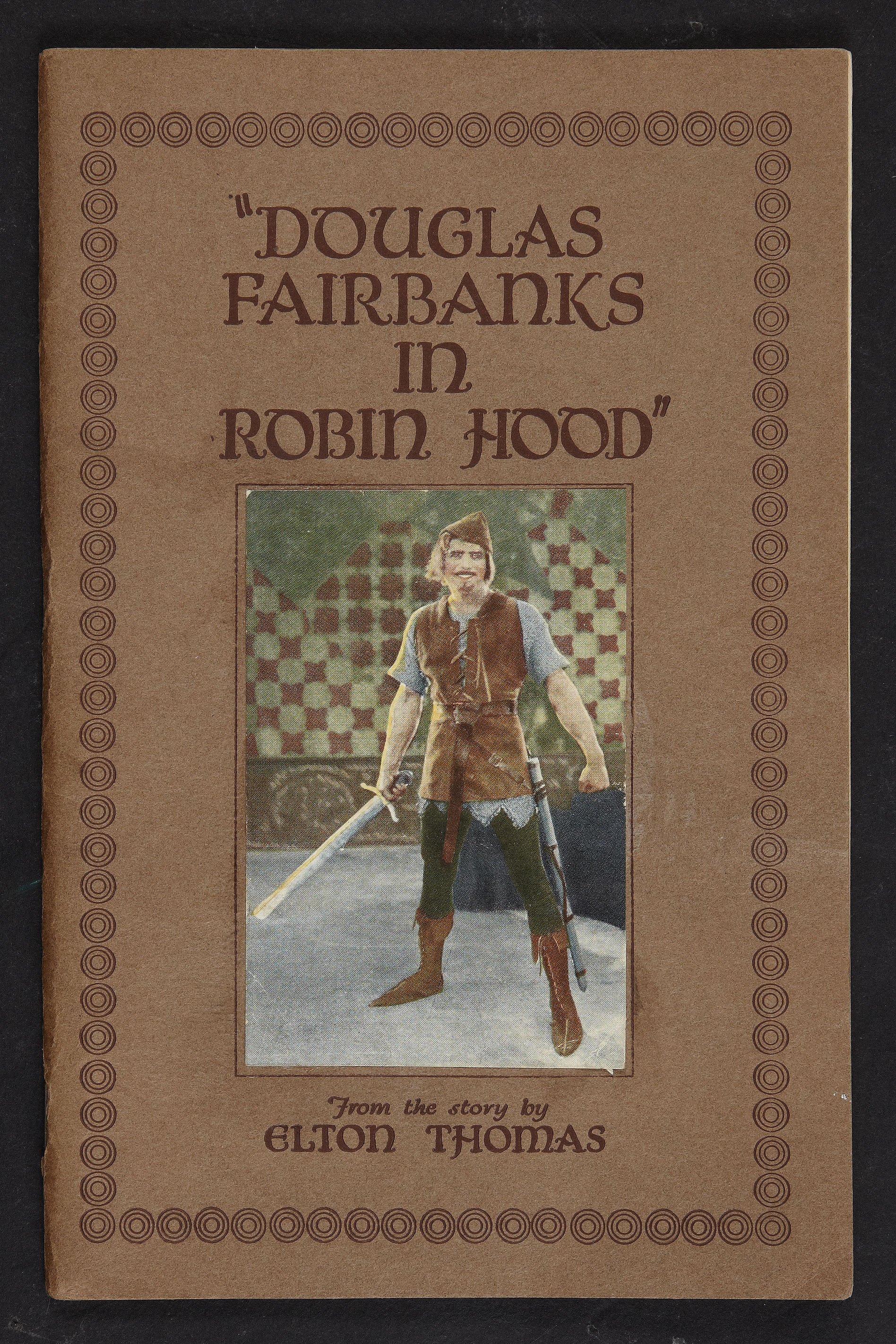 Film poster.